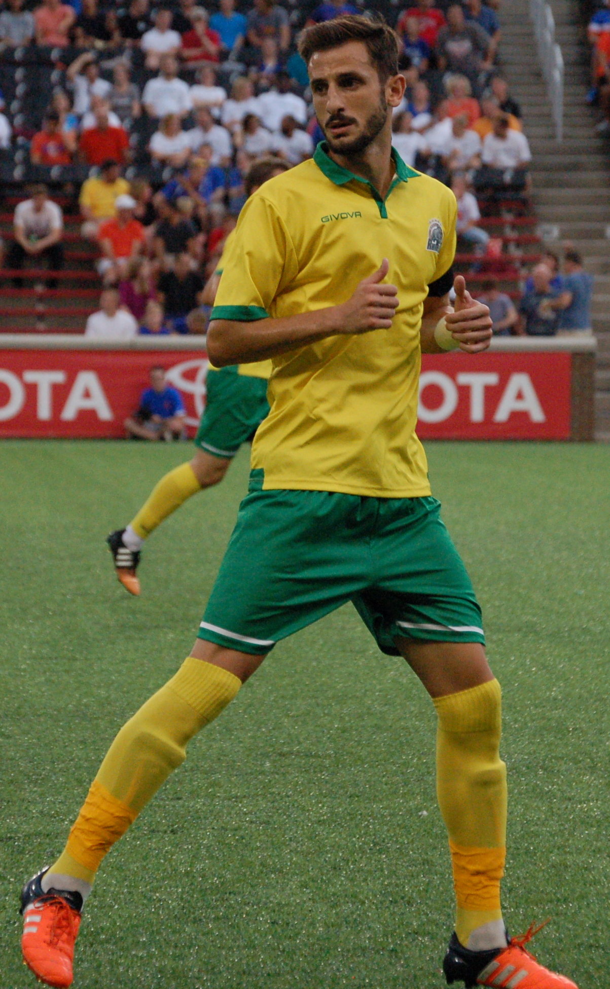 Vassilios Apostolopoulos (ROC) Taken during a match between FC Cincinnati and Rochester Rhinos at Nippert Stadium in Cincinnati, USA on August 24, 2016.